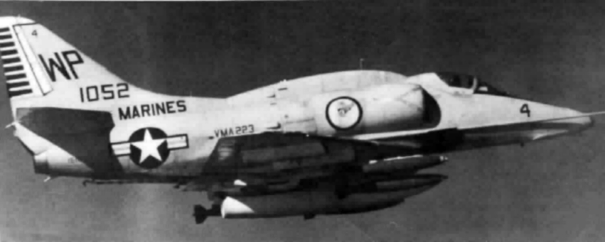 A Douglas A-4E Skyhawk (BuNo 151052) of Marine attack squadron VMA-223 Bulldogs during the Vietnam War. The aircraft is armed with 227 kg (500 lb) Mk 82 bombs.